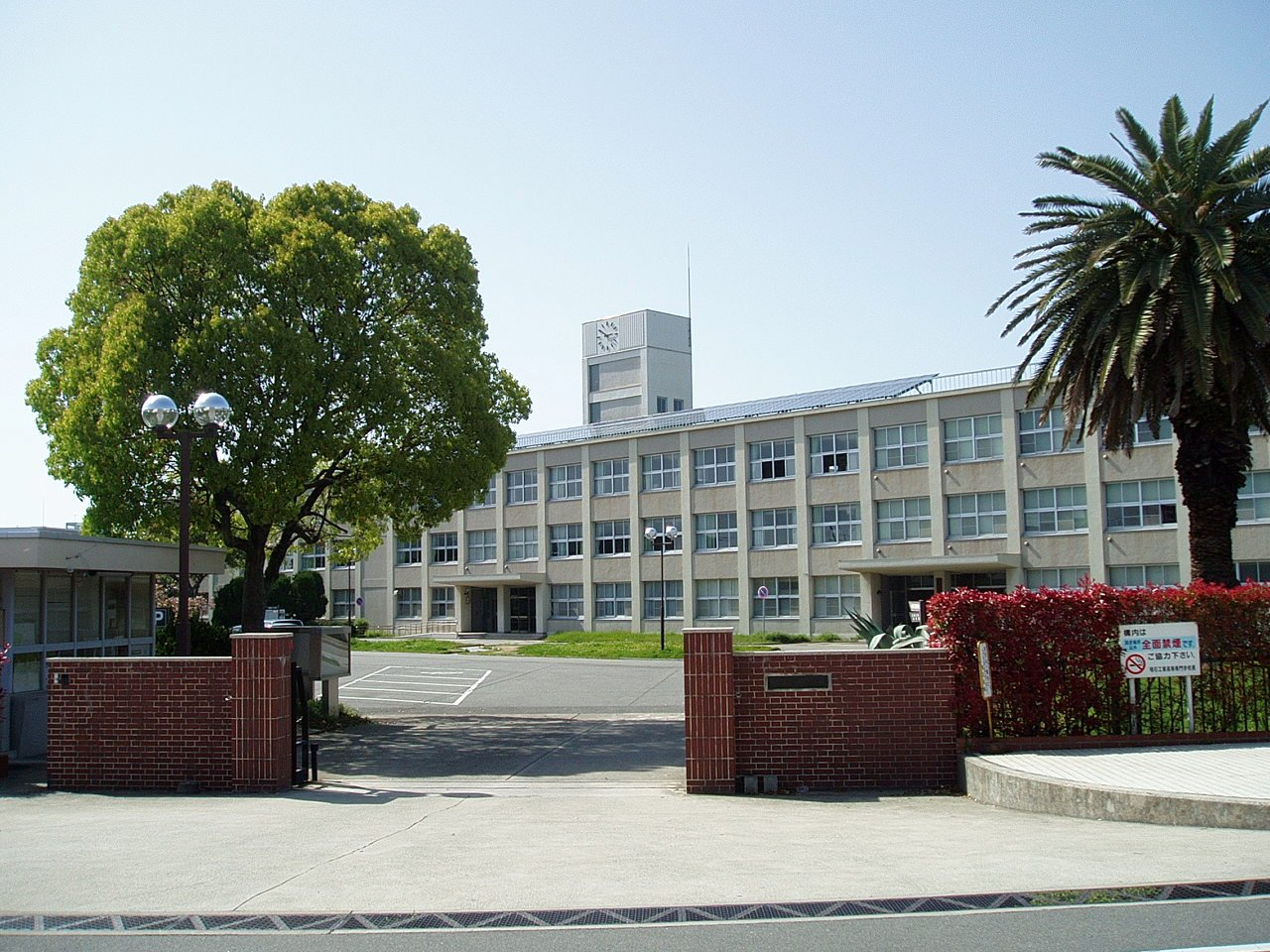 Akashi National College of Technology located in Akashi, Hyogo Pref., Japan.